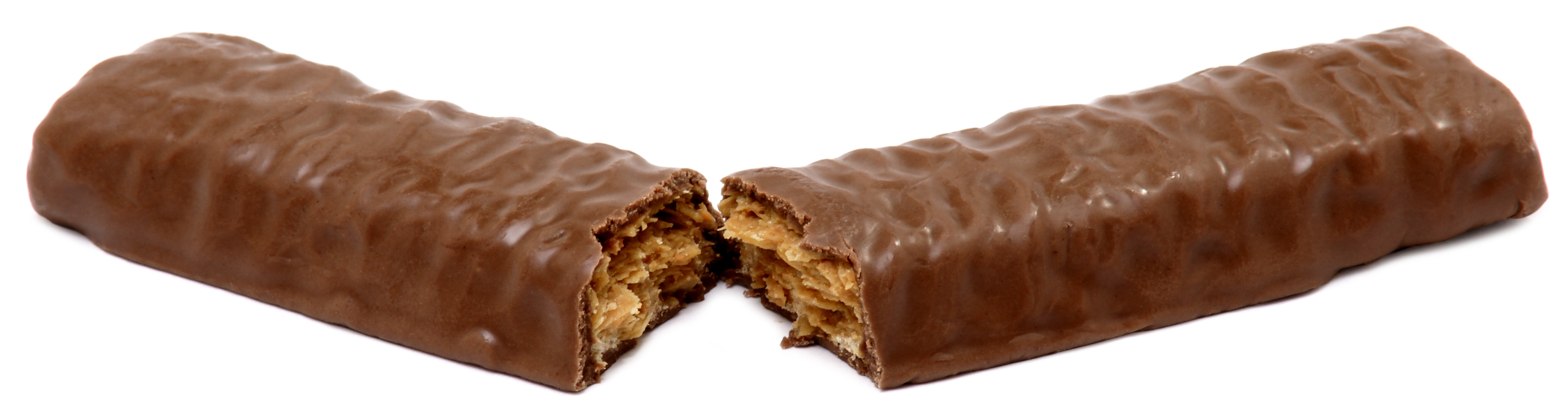 A 5th Avenue candy bar, broken in half.